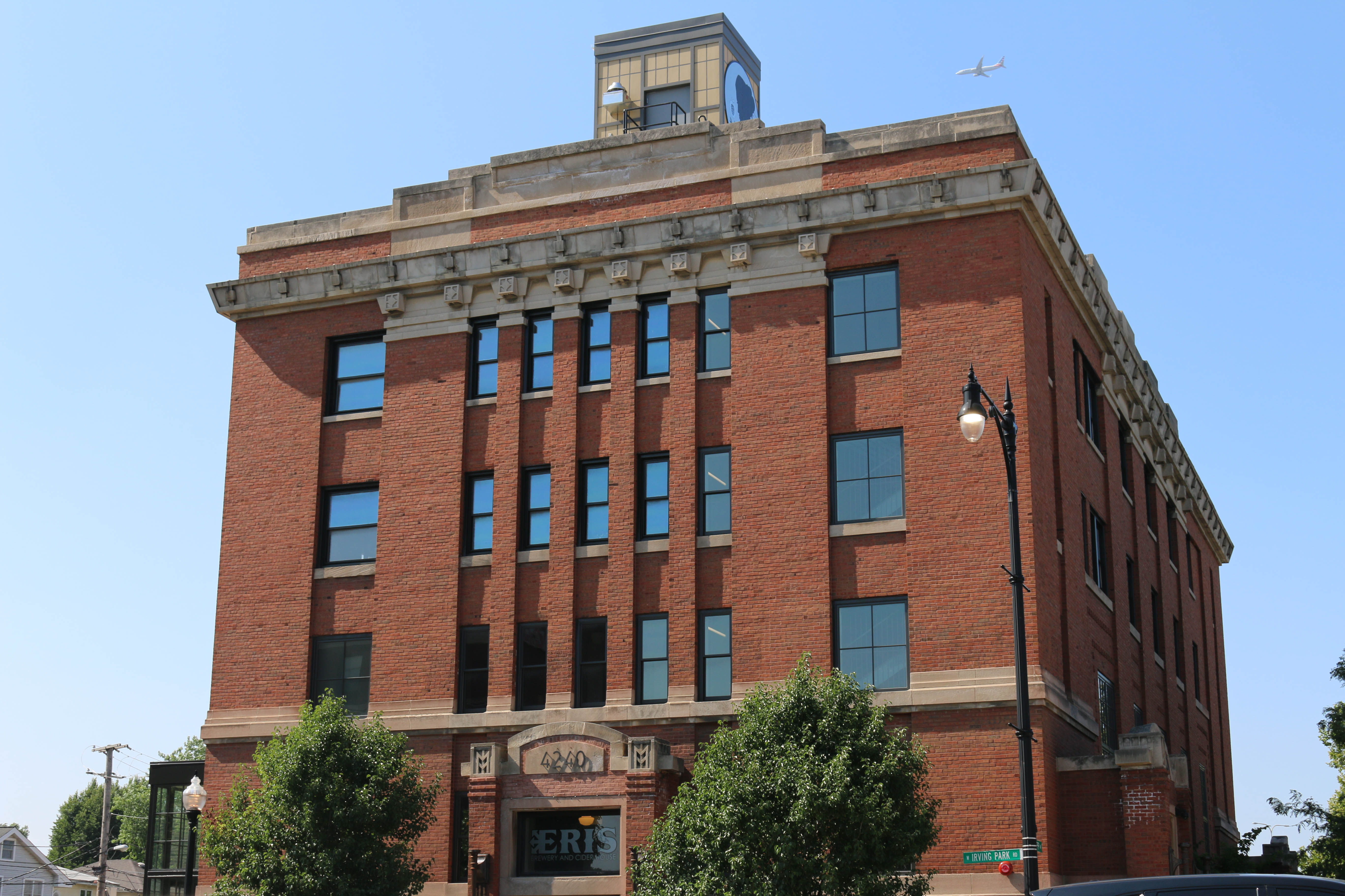 Myrtle Masonic Temple building after 2018 renovation to ERIS Brewery and Cider House.